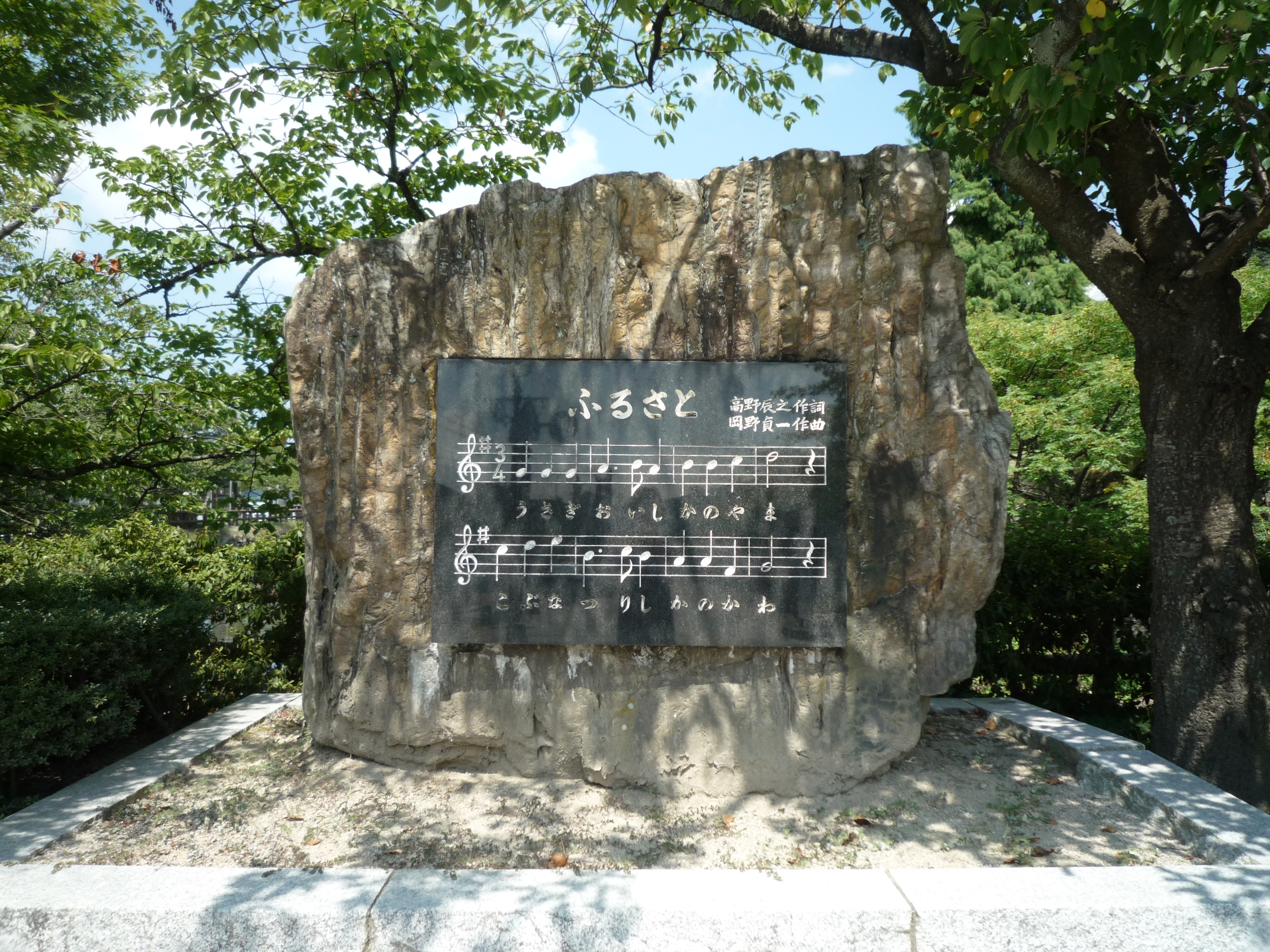 "Furusato" song monument at the entrance of Kyūshō Park in Tottori, Tottori Prefecture, Japan.